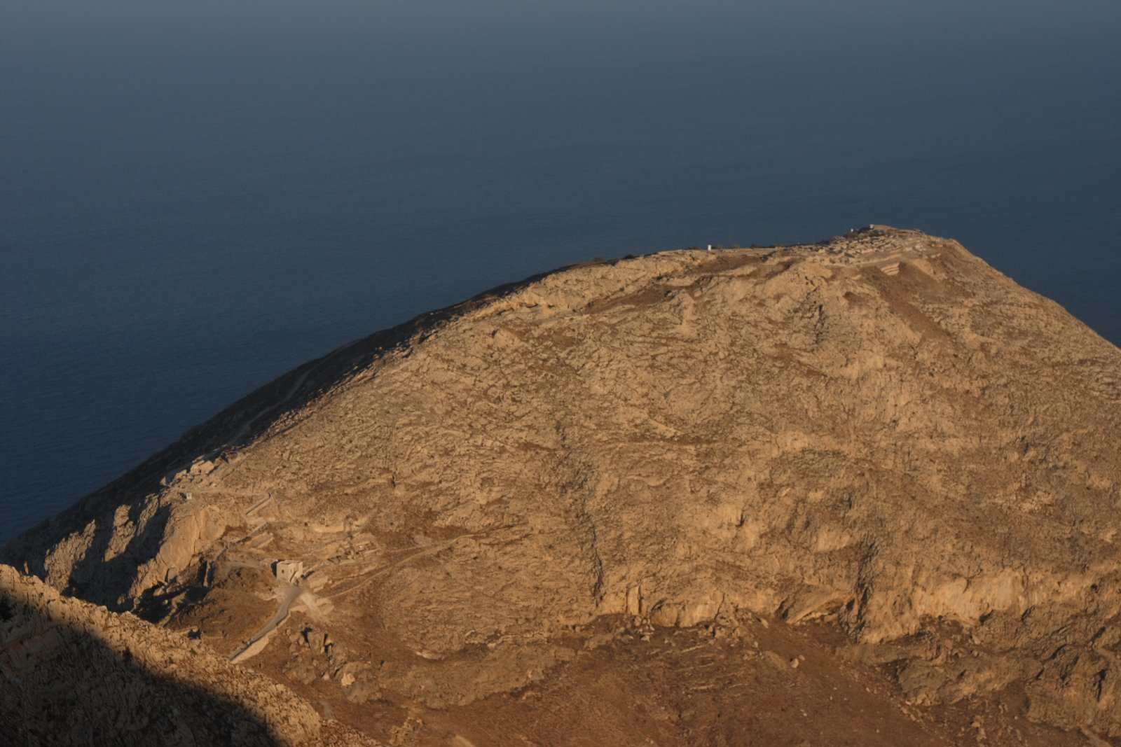 Santorini ancient Thera, view from Mount Elias